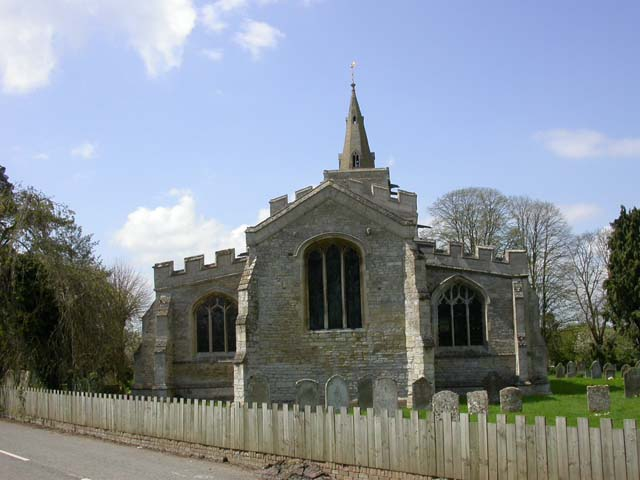 All Hallows, East End. Taken from the High Street, Upper Dean.